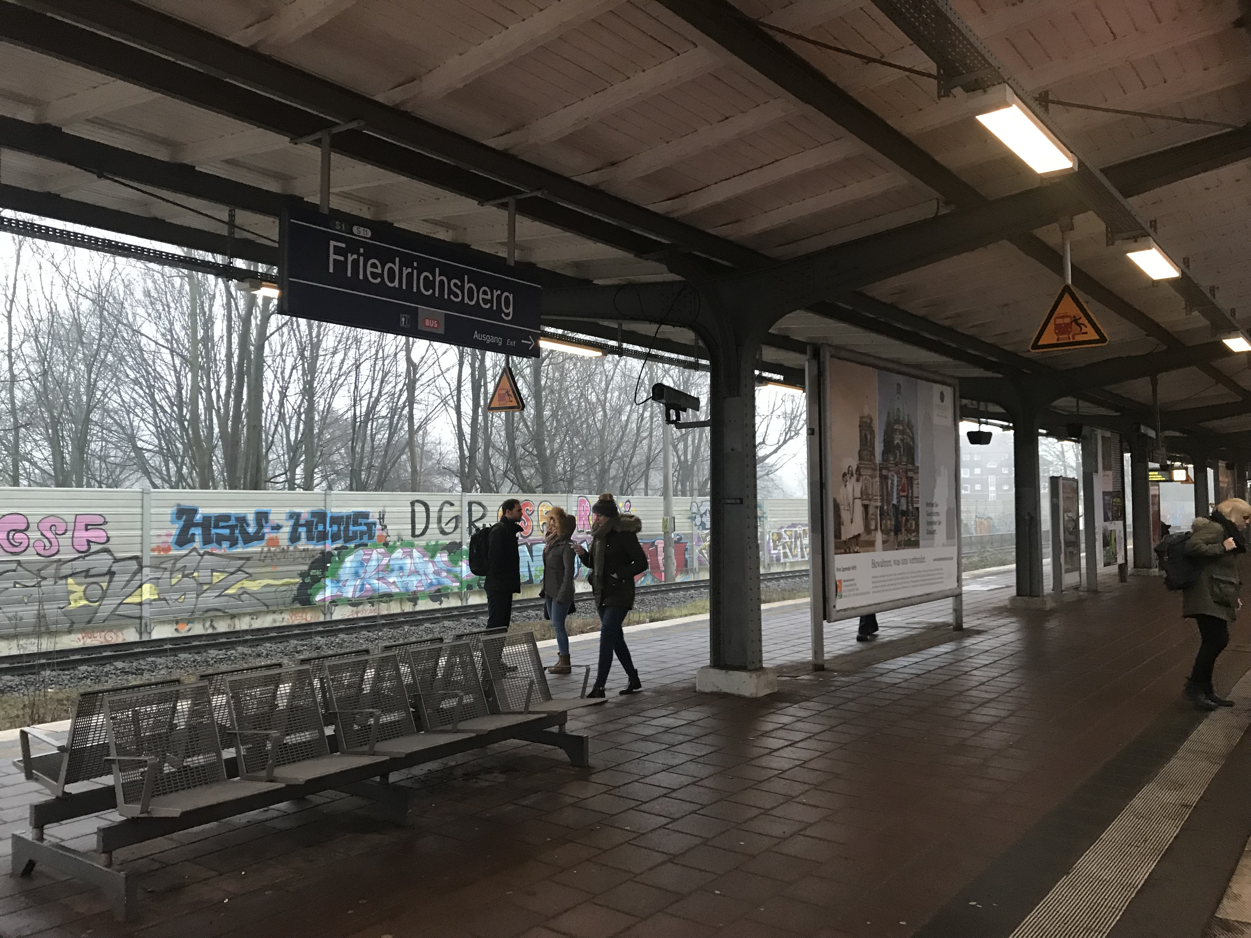 201803 Platform of Friedrichsberg Station Hamburg. There are so many places with the same name all over the world, even in the US